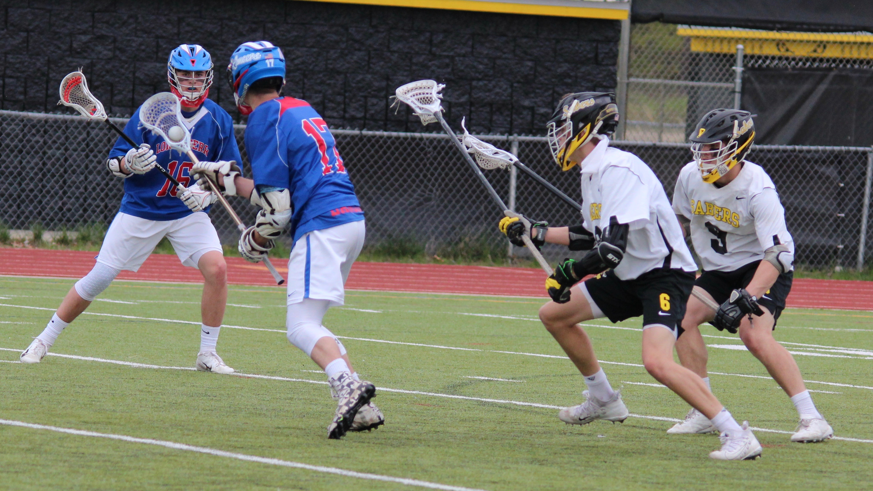 Souhegan Sabers Lacrosse